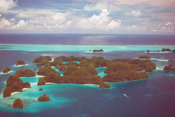 Seventy Islands